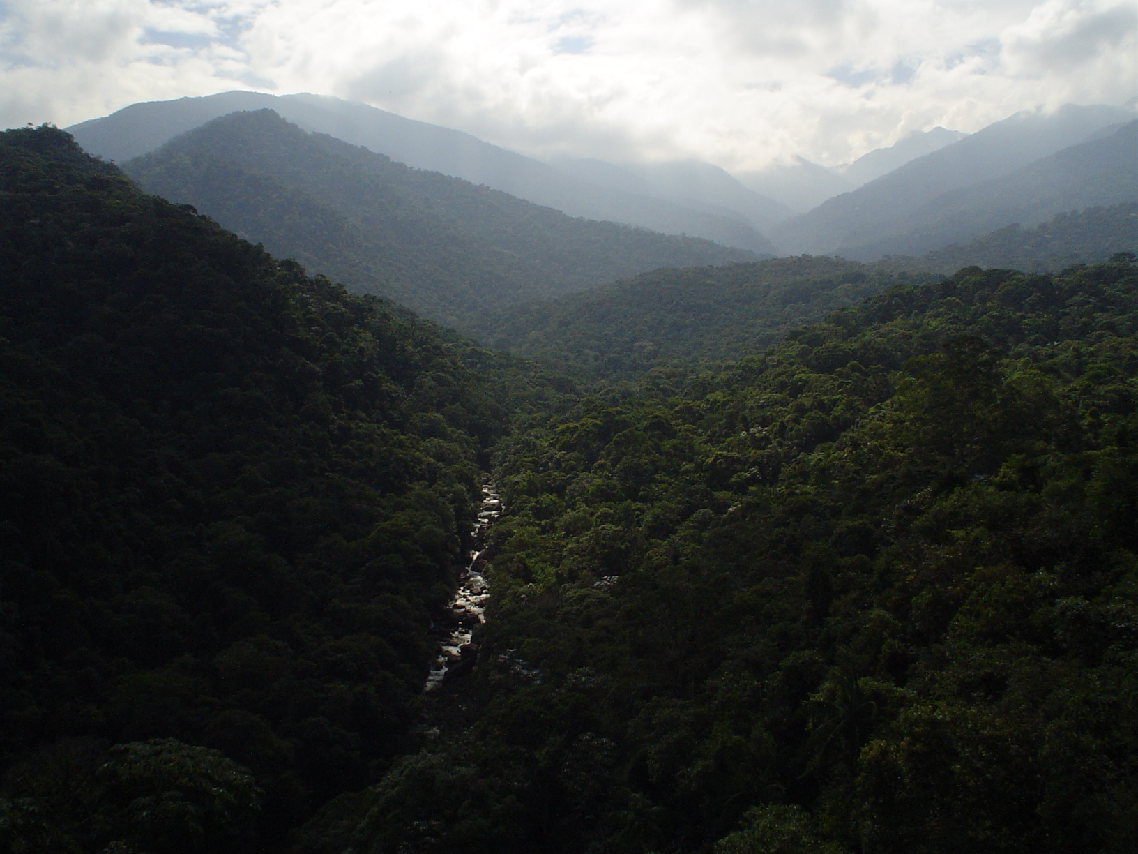 Serrinha do Alambari mountain range - in Itatiaia National Park, Rio de Janeiro, Brazil